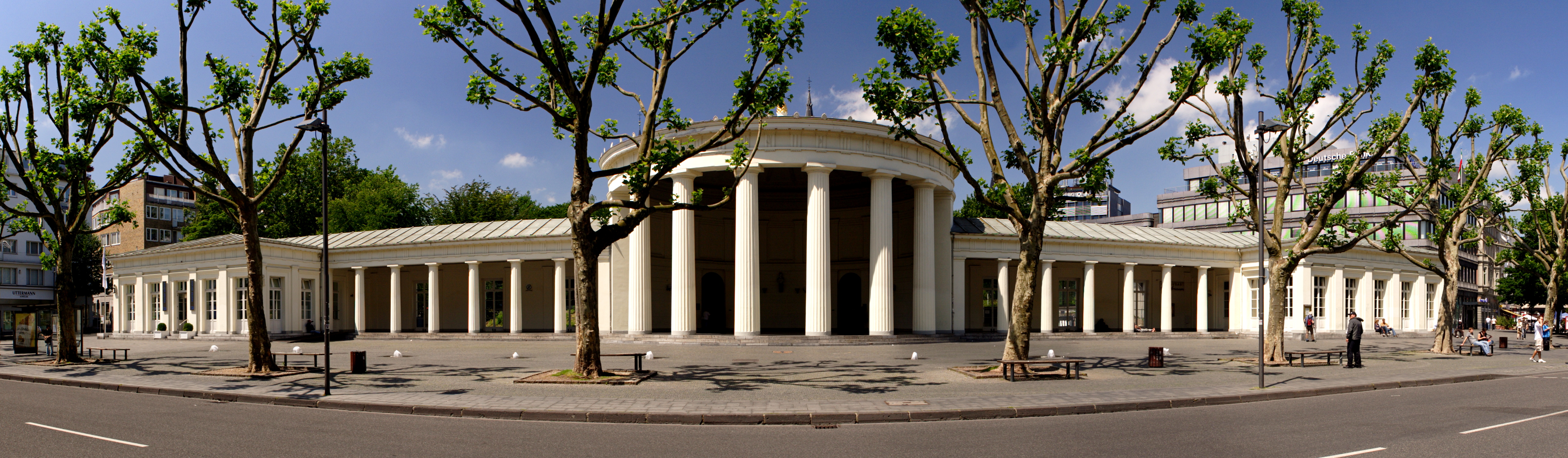 This image shows a building called Elisenbrunnen. It is a fountain in Aachen, Germany, which was built from 1822 to 1827. The image is stitched from 8 frames.